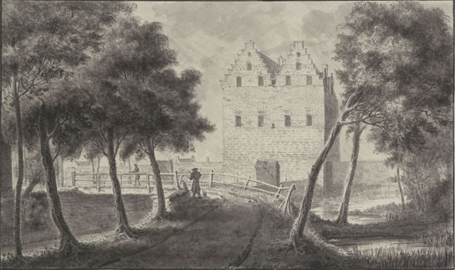 Drawing from the second part of the album 'Vues de Bruxelles et environs' by Paul Vitzthumb, held in the Royal Library of Belgium.